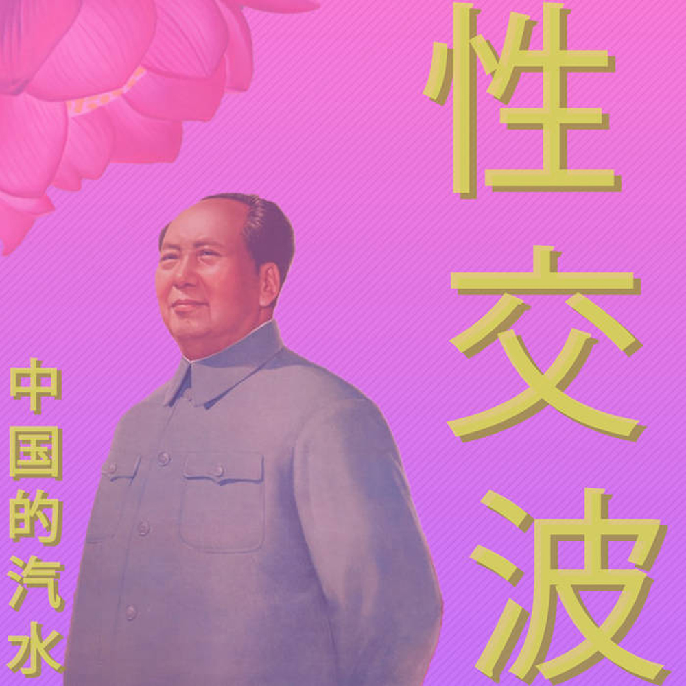 The Album cover of Vaporwave for China